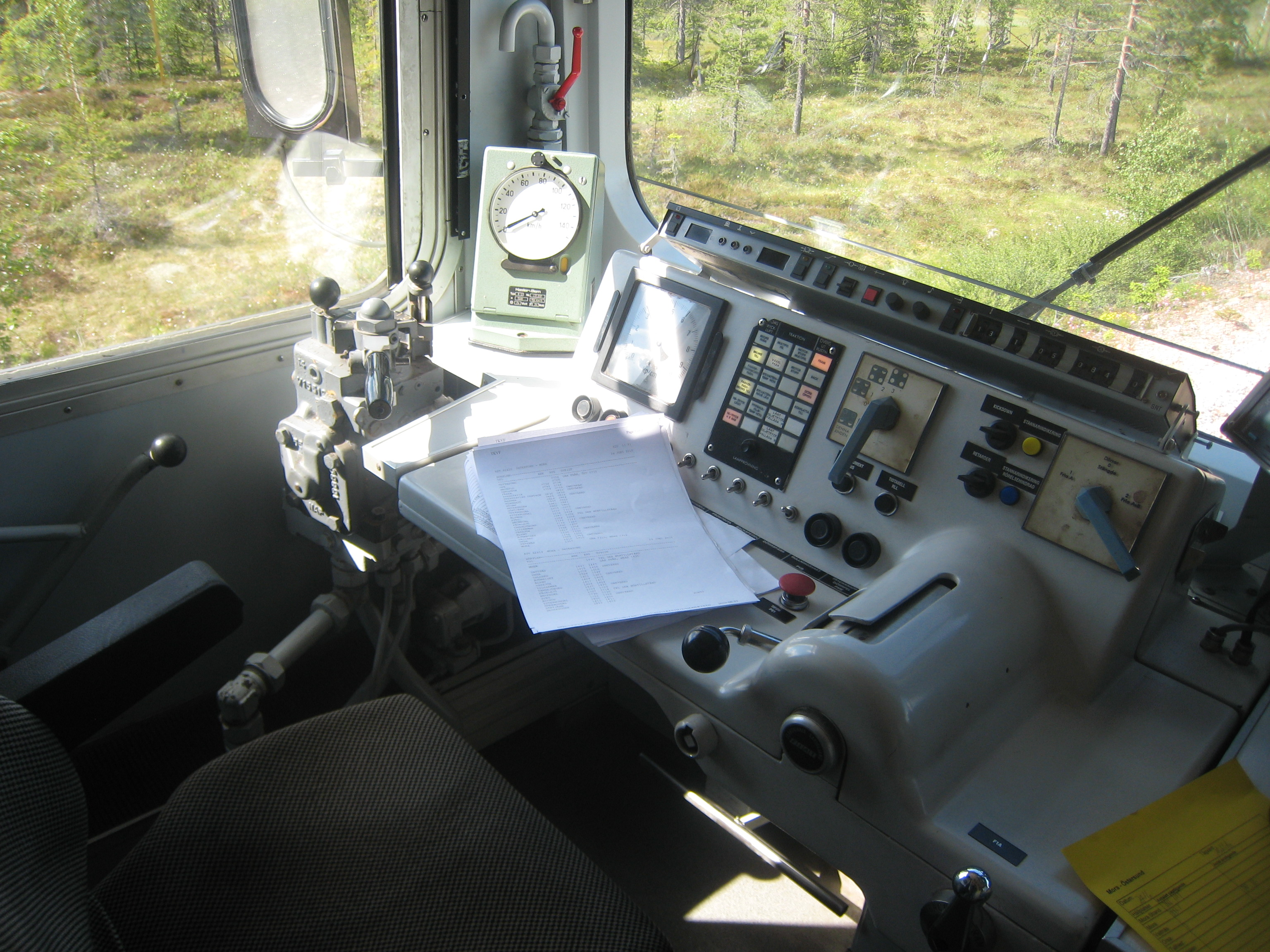 Y1 train at Inlandsbanan.